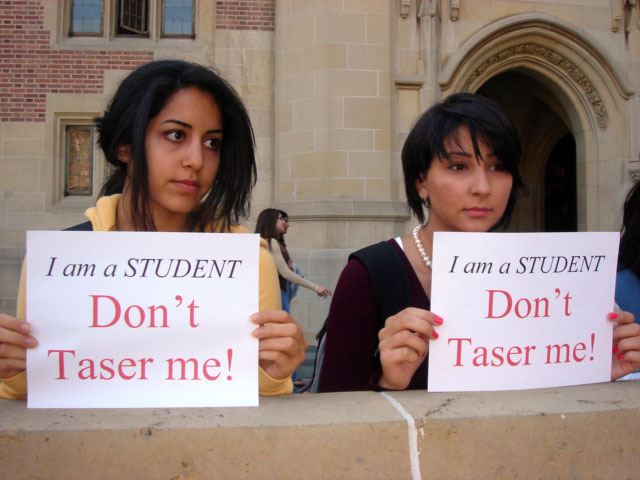 UCLA students protest taser incident, November 17, 2006. Photo: Michael Linder, KNX.